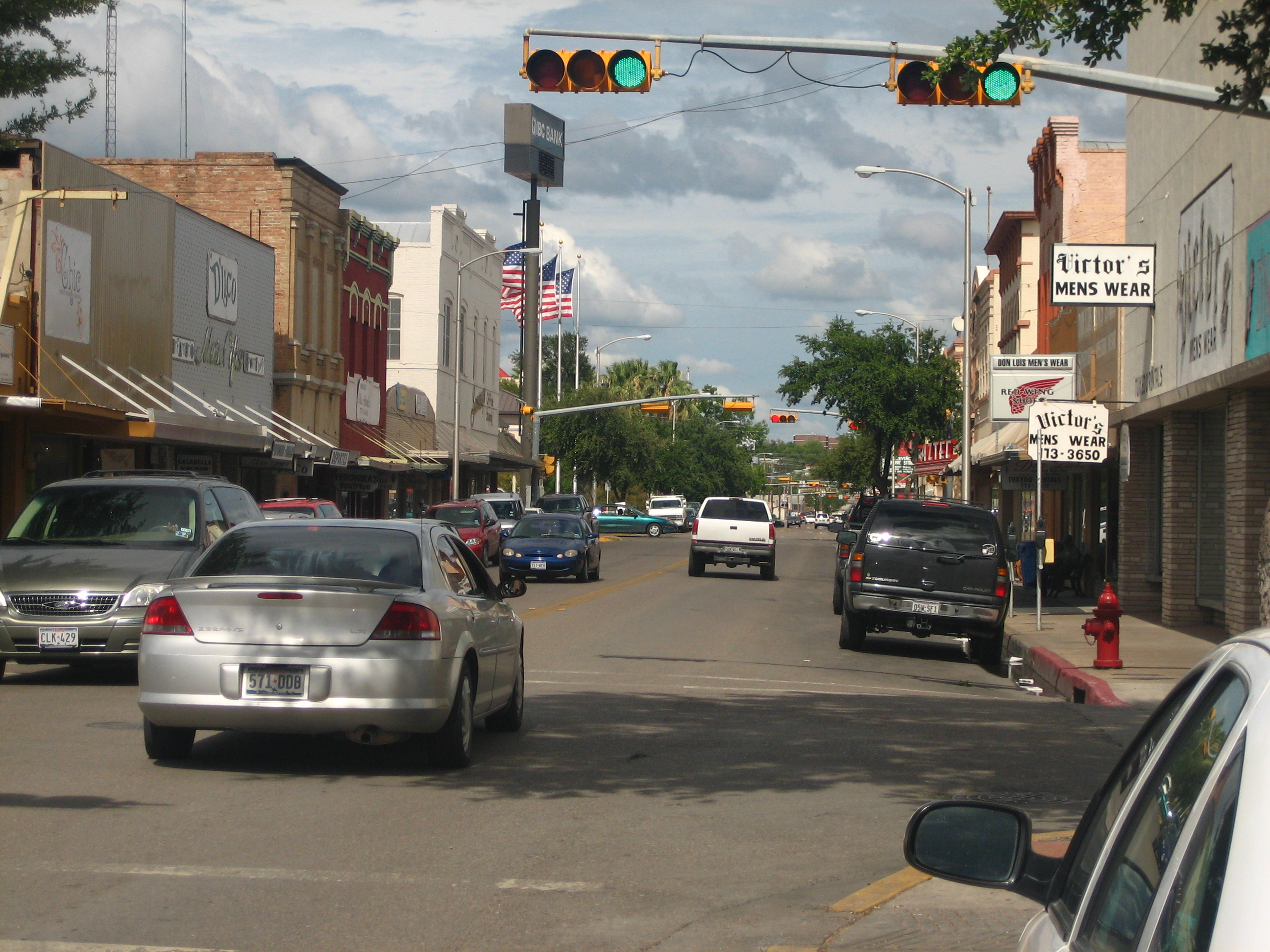 I took photo on July 8, 2008.Billy Hathorn (talk) 04:00, 27 July 2008 (UTC)